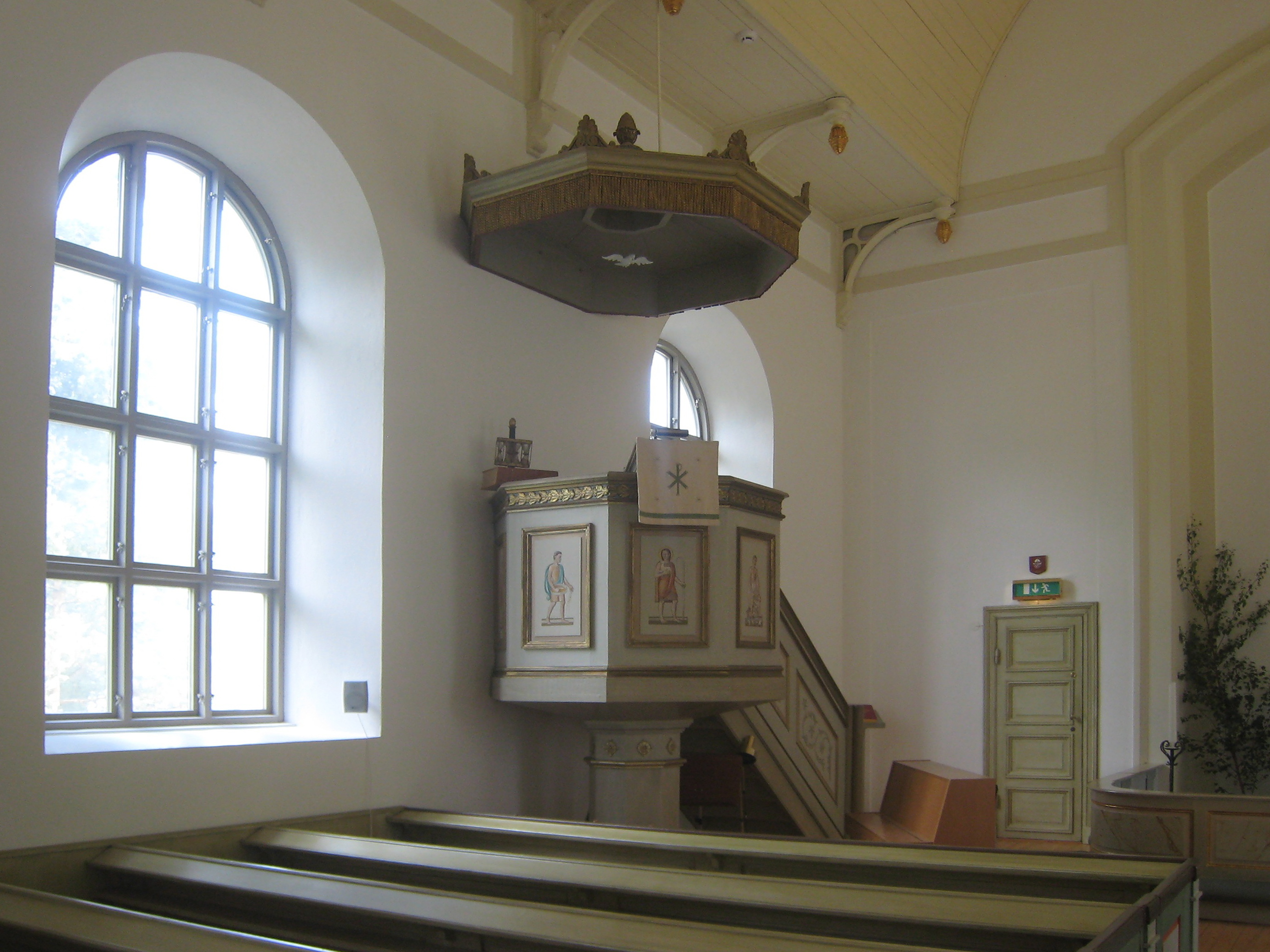 Utö kyrka.